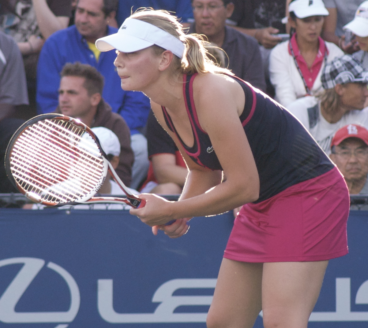 Jelena Dokic at the 2009 US Open